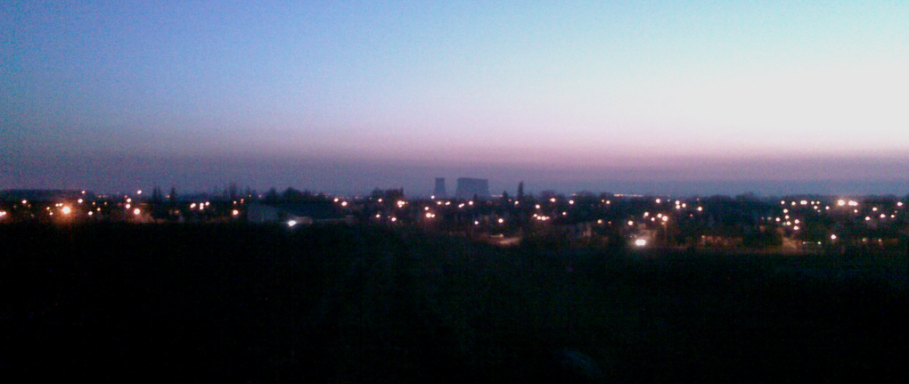 Stainforth by night, spring 2009. Taken from near Hatfield Main Colliery.